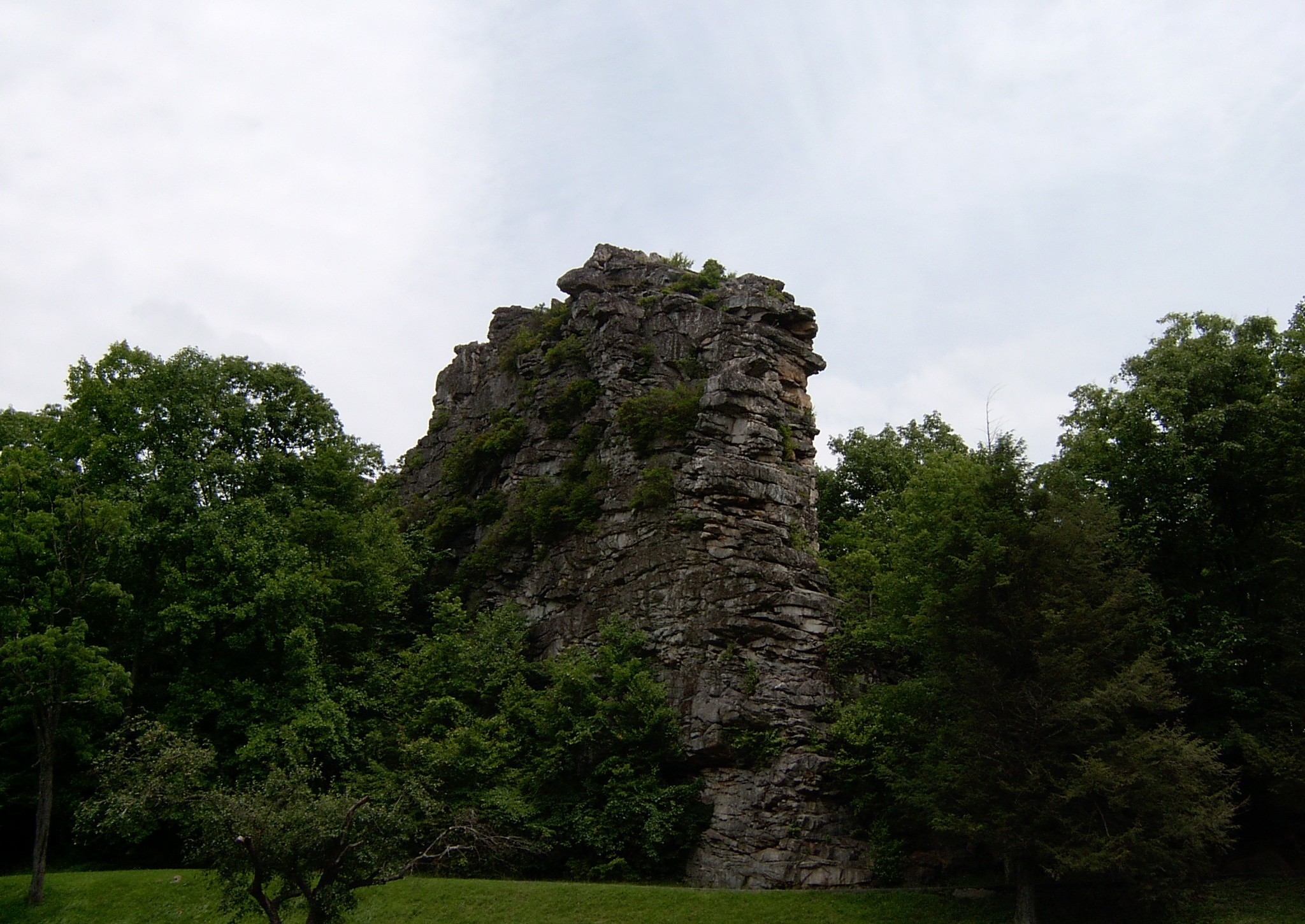 This is a cropped image of an image in the English Wikipedia database uploaded by User:Bitmapped. Assuming per title it is Pinnacle Rock State Park, WV, USA